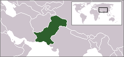 Pakistan on World map